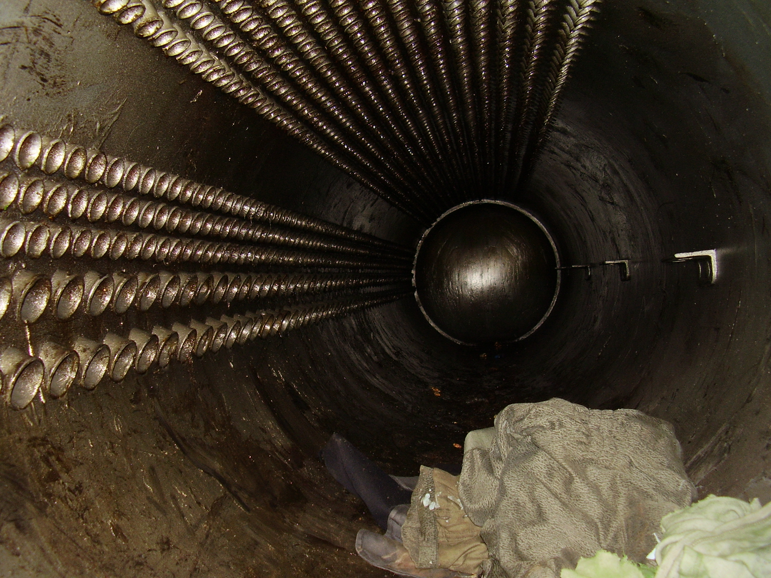 Internal view of a water drum in a water tube marine boiler